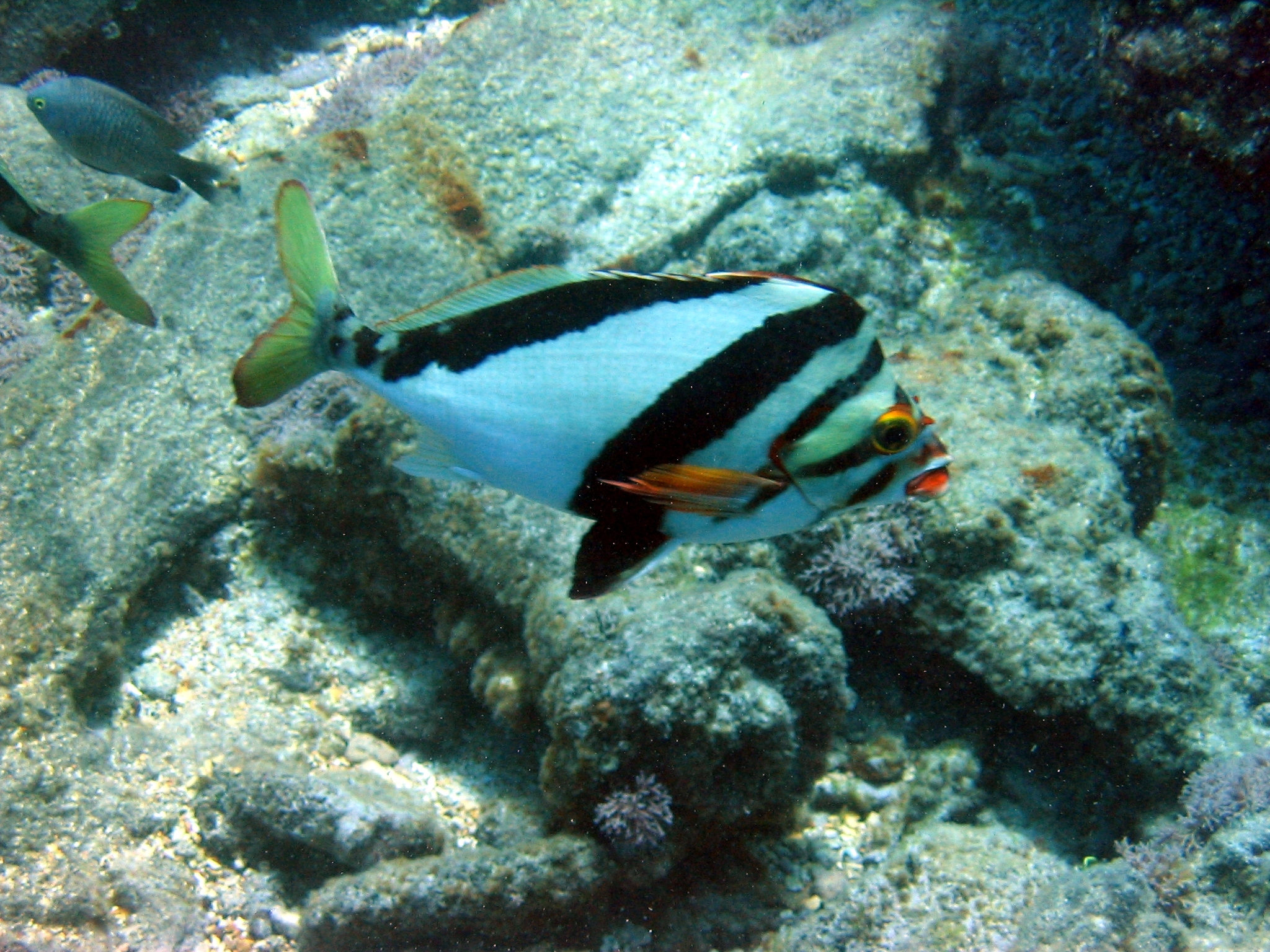 Morwong (Cheilodactylus vittatus). Northwest Hawaiian Islands. July, 2004.